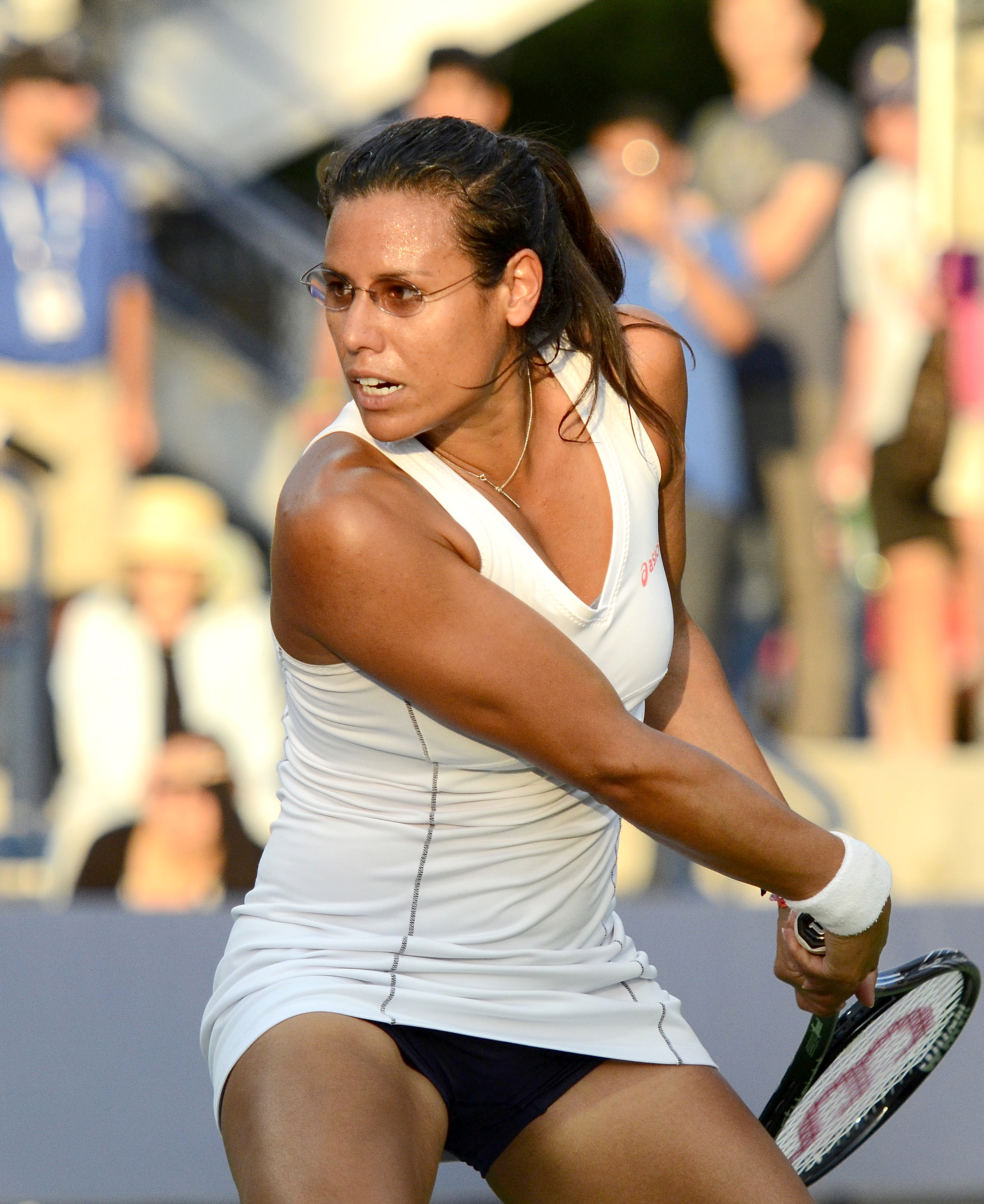 August 21, 2014 Queens, NY Melanie Oudin (USA) def. Stephanie Foretz (FRA) This photo is from two days I went to the qualifying rounds ("the Qualies") for the US Open tennis tournament. There are hundreds more photos to come. (8/23/14)